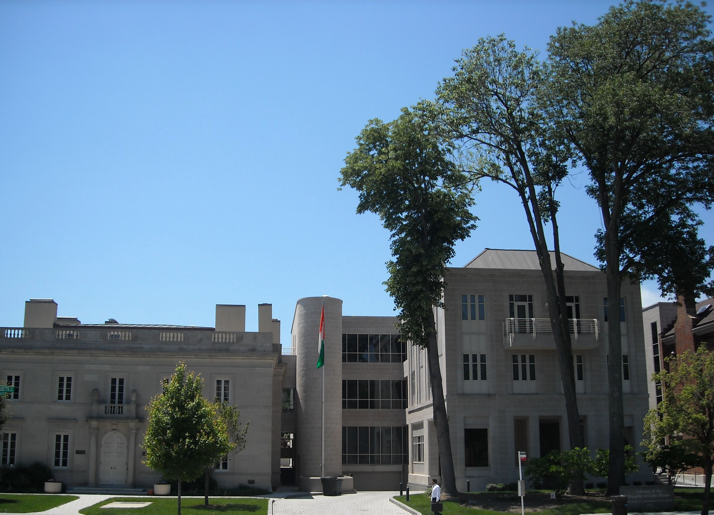 Embassy of Côte d'Ivoire to the United States. Located in Washington, D.C.